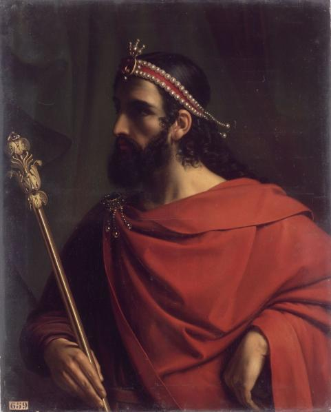 This painting belongs to the Portraits of Kings of France, a series of portraits commissioned between 1837 and 1838 by Louis Philippe I and painted by various artists for the Musée historique de Versailles.